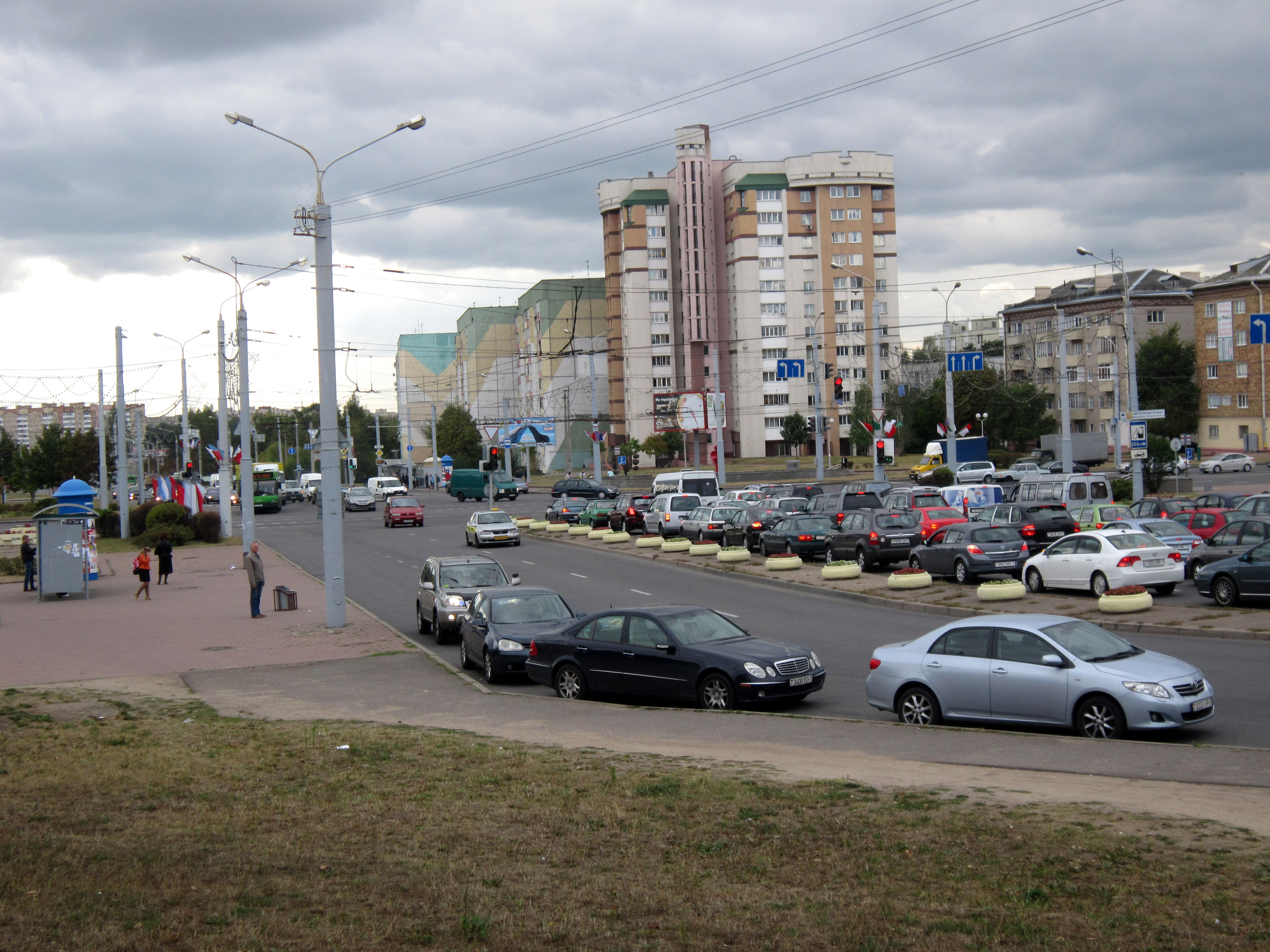 Radyjaĺnaja street and Partyzanski avenue (Minsk, Belarus)